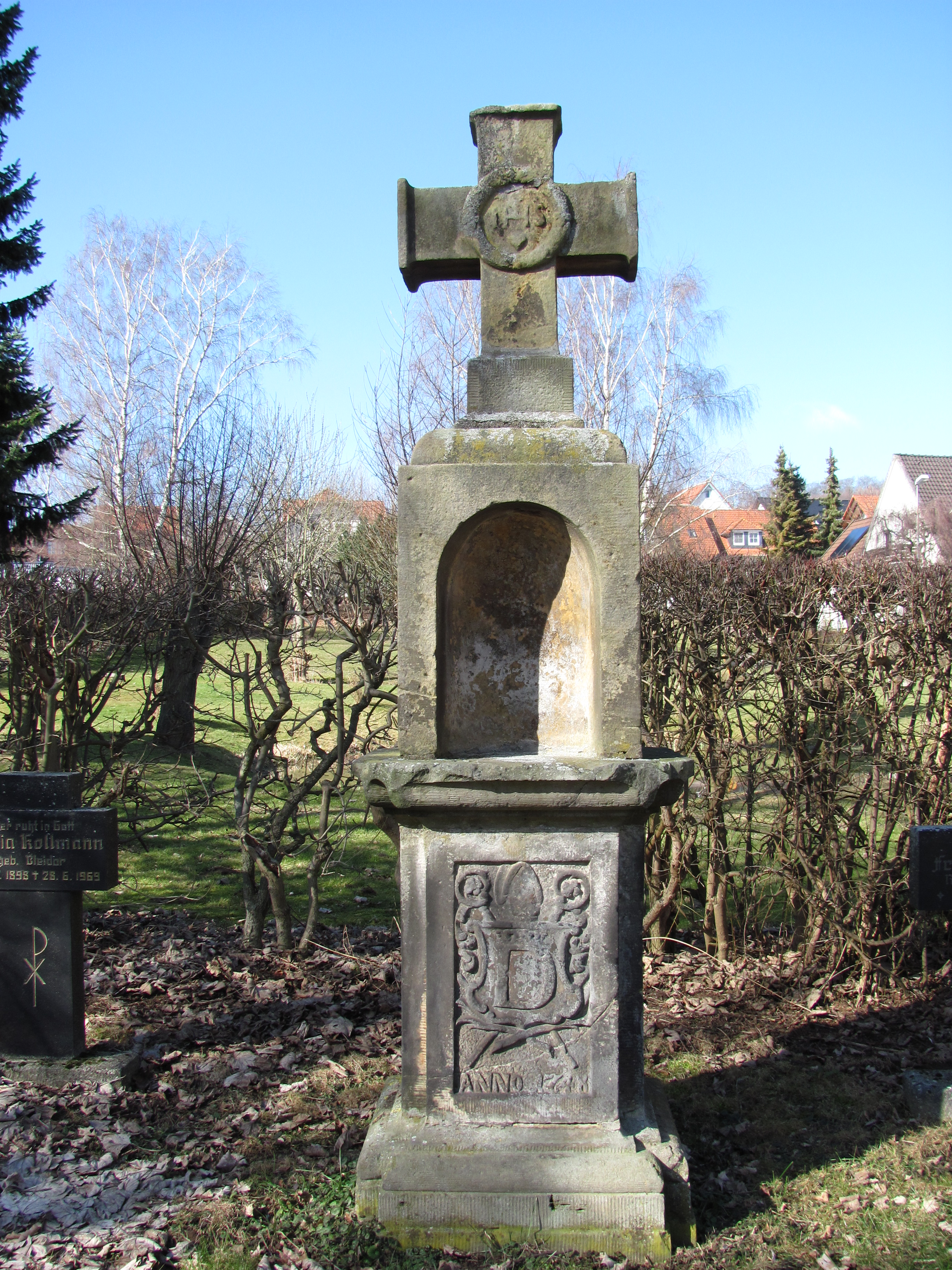 Stone cross (1748) behind St. Andrew's Church, Holle-Sottrum, Lower Saxony, Germany.